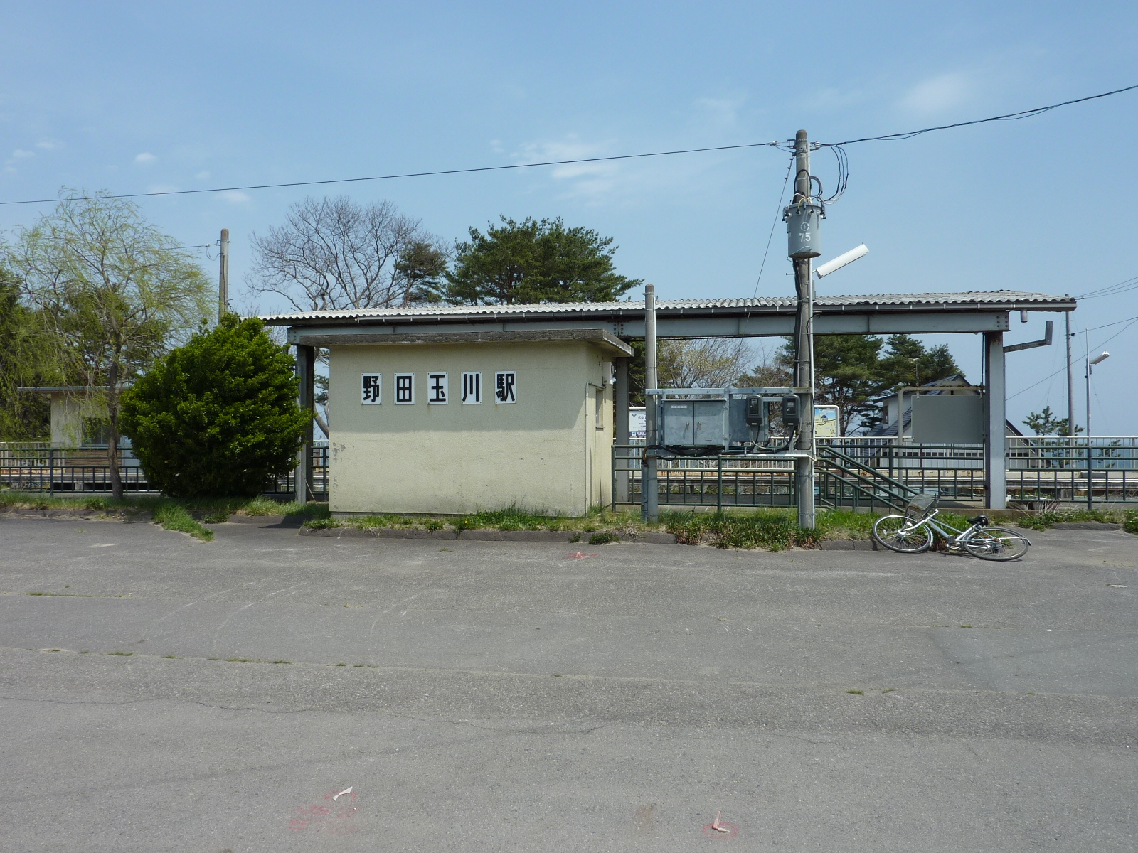 Noda-Tamagawa Station on Sanriku Railway Kita Riasu Line, in Tamagawa, Noda Village, Kunohe District, Iwate Prefecture, Japan